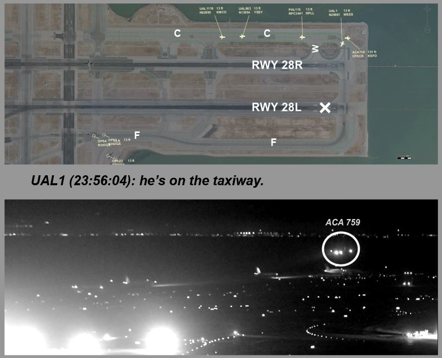 The top portion of this NTSB graphic, created from Harris Symphony OpsVue radar track data analysis, depicts the positions of aircraft on an overhead view of the runways and taxiways at San Francisco International Airport. The text is from a transmission to air traffic control from a United Airlines airplane on the taxiway. The bottom photo, taken from San Francisco International Airport video, shows Air Canada Flight 759 passing over the United Airlines airplane.